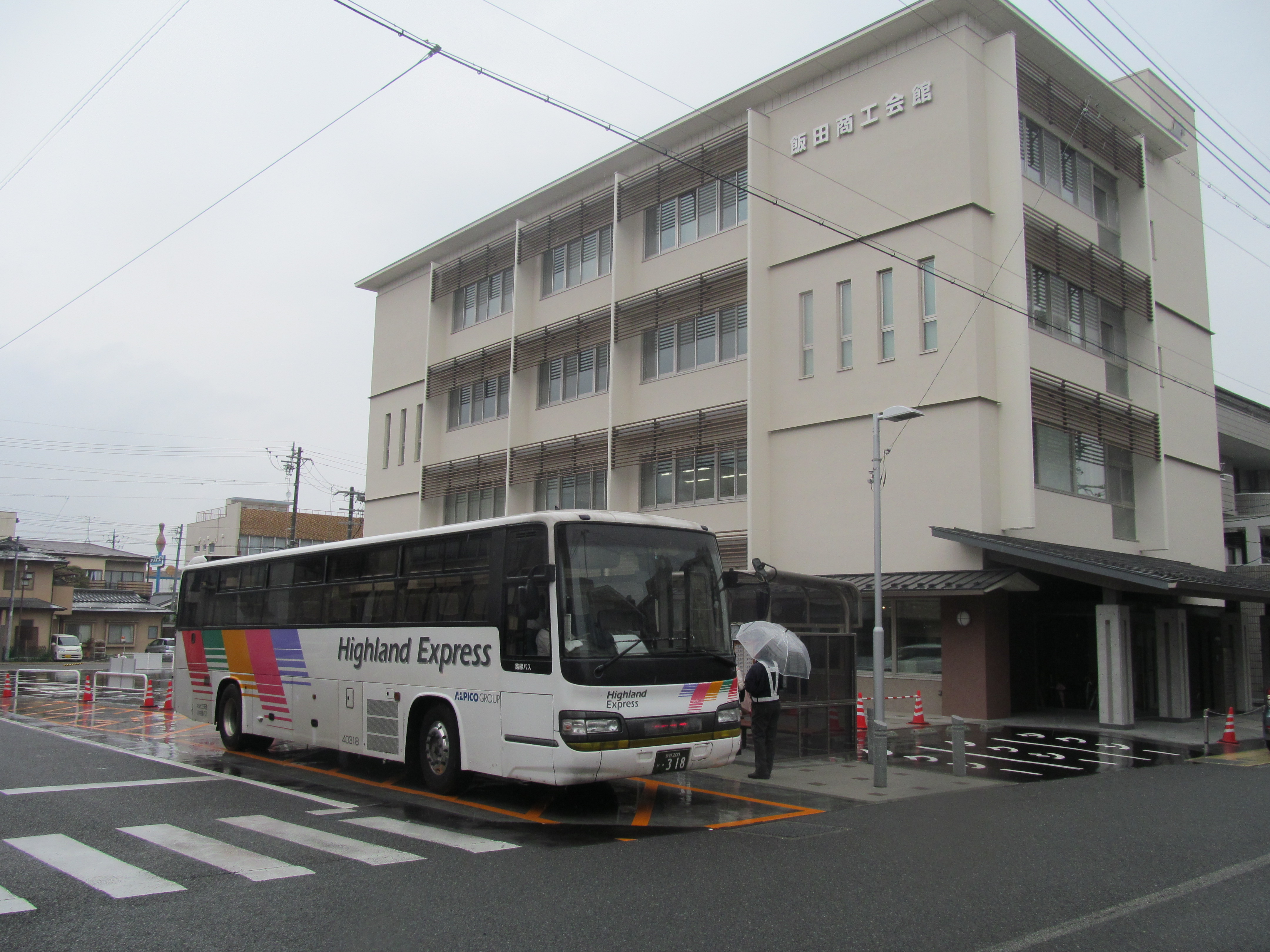 Iida ShokouKaikan Busstop1